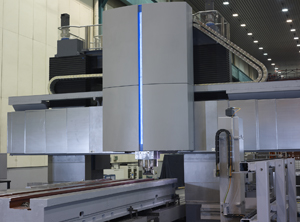 WaldrichSiegen ProfiMill portal milling machine